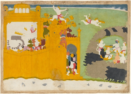 The Monkey Leader Angada Steals Ravana's Crown from His Fortress